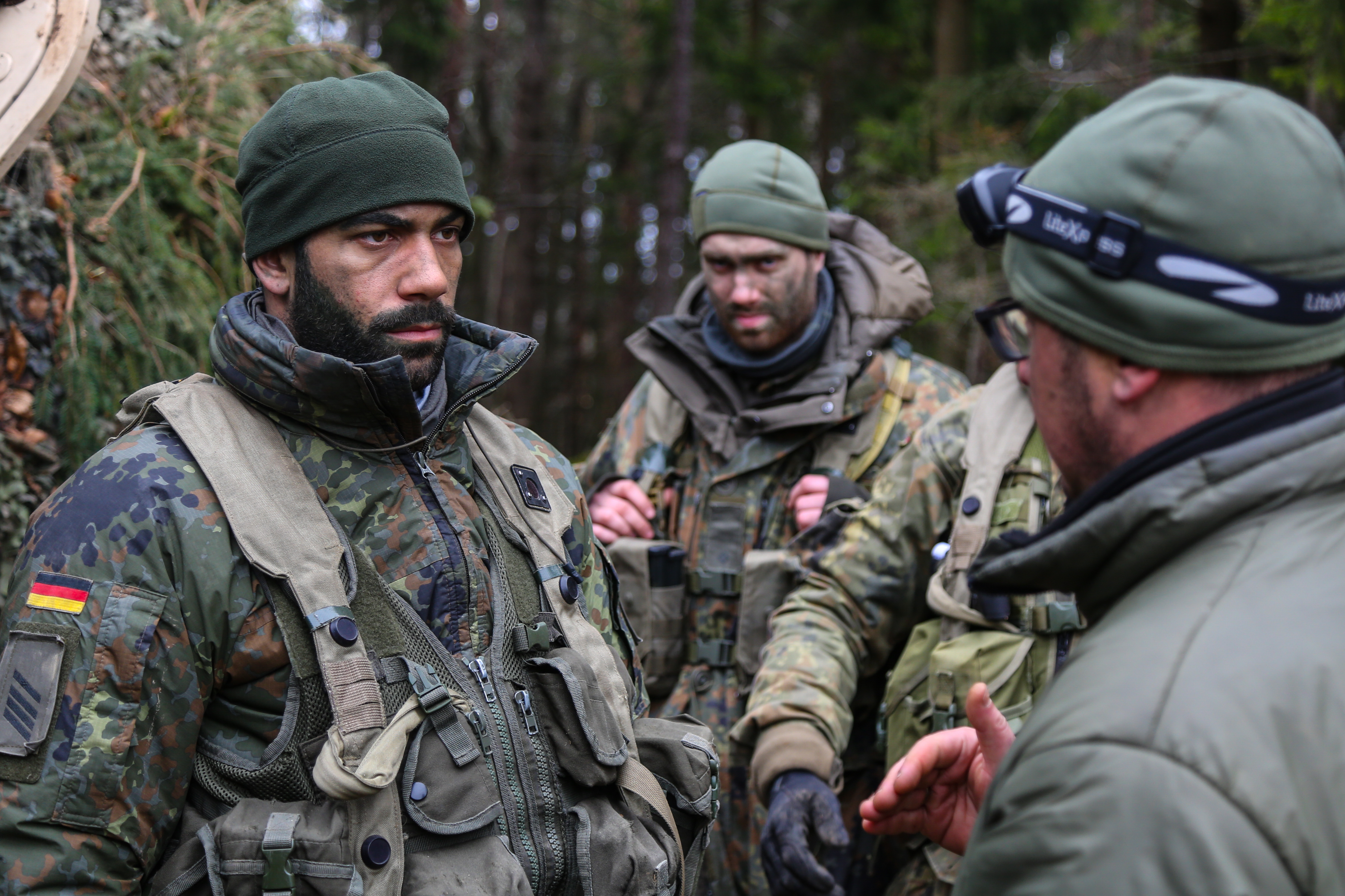 German Soldiers of 8th Reconnaissance Battalion, 12th Armored Brigade discuss mission specifications while conducting reconnaissance operations during Exercise Allied Spirit VI at 7th Army Training Command’s Hohenfels Training Area, Germany, March 24, 2017. Exercise Allied Spirit VI includes about 2,770 participants from 12 NATO and Partner for Peace nations, and exercises tactical interoperability and tests secure communications within Alliance members and partner nations..